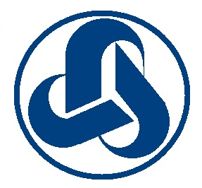 Asahi Mie chapter